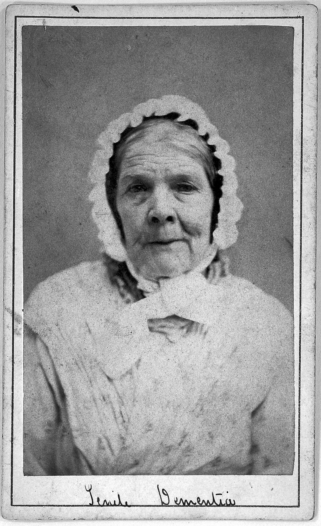 'Senile dementia' female patient at West Riding Lunatic Asylum, Wakefield, York. Wellcome Images Keywords: Henry Clarke; Henry Clarke